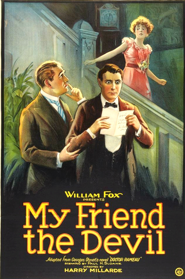 Poster for the 1922 film My Friend the Devil.